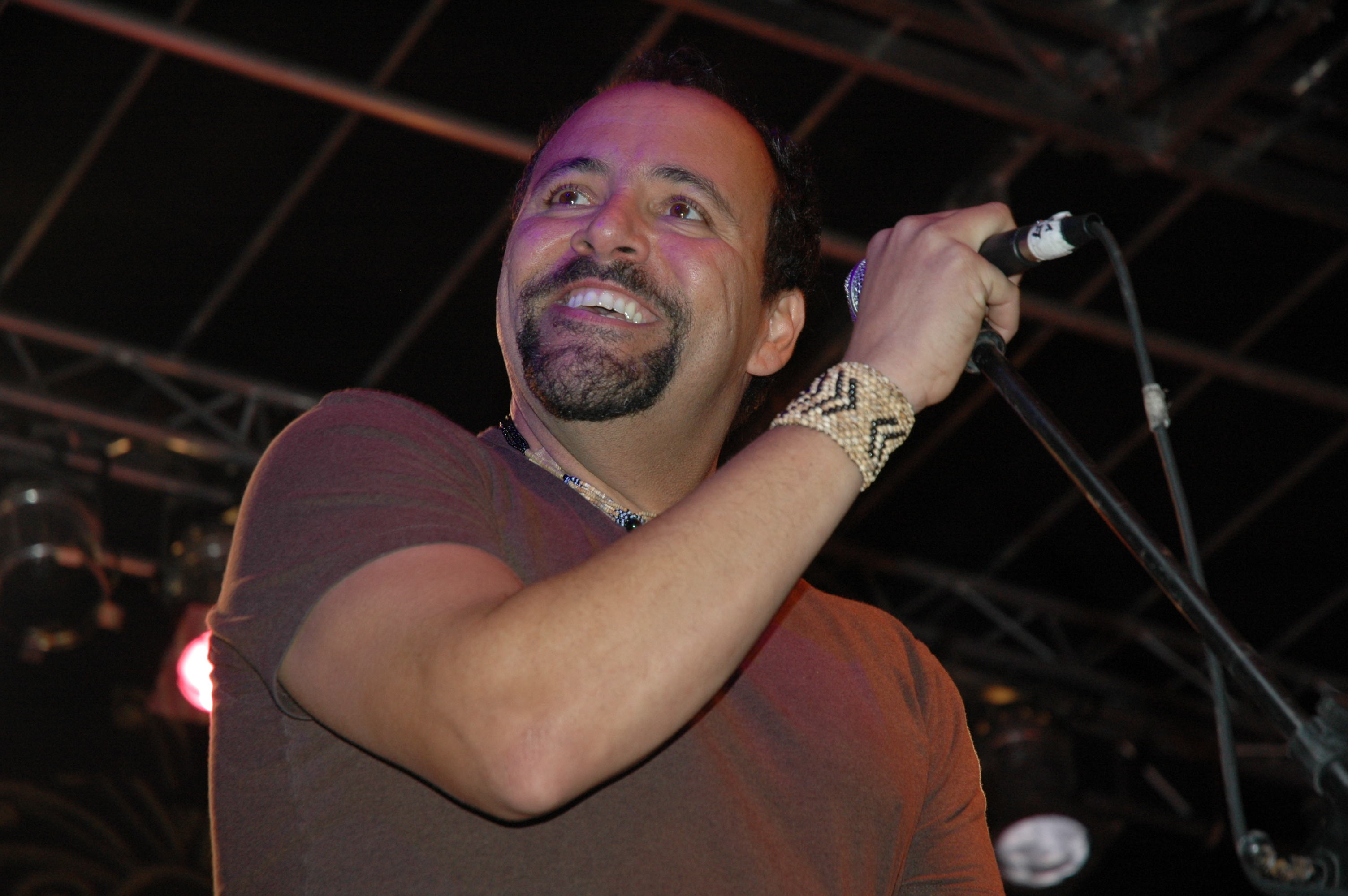 Fiesta Tropicale of Hollywood, Florida 2008